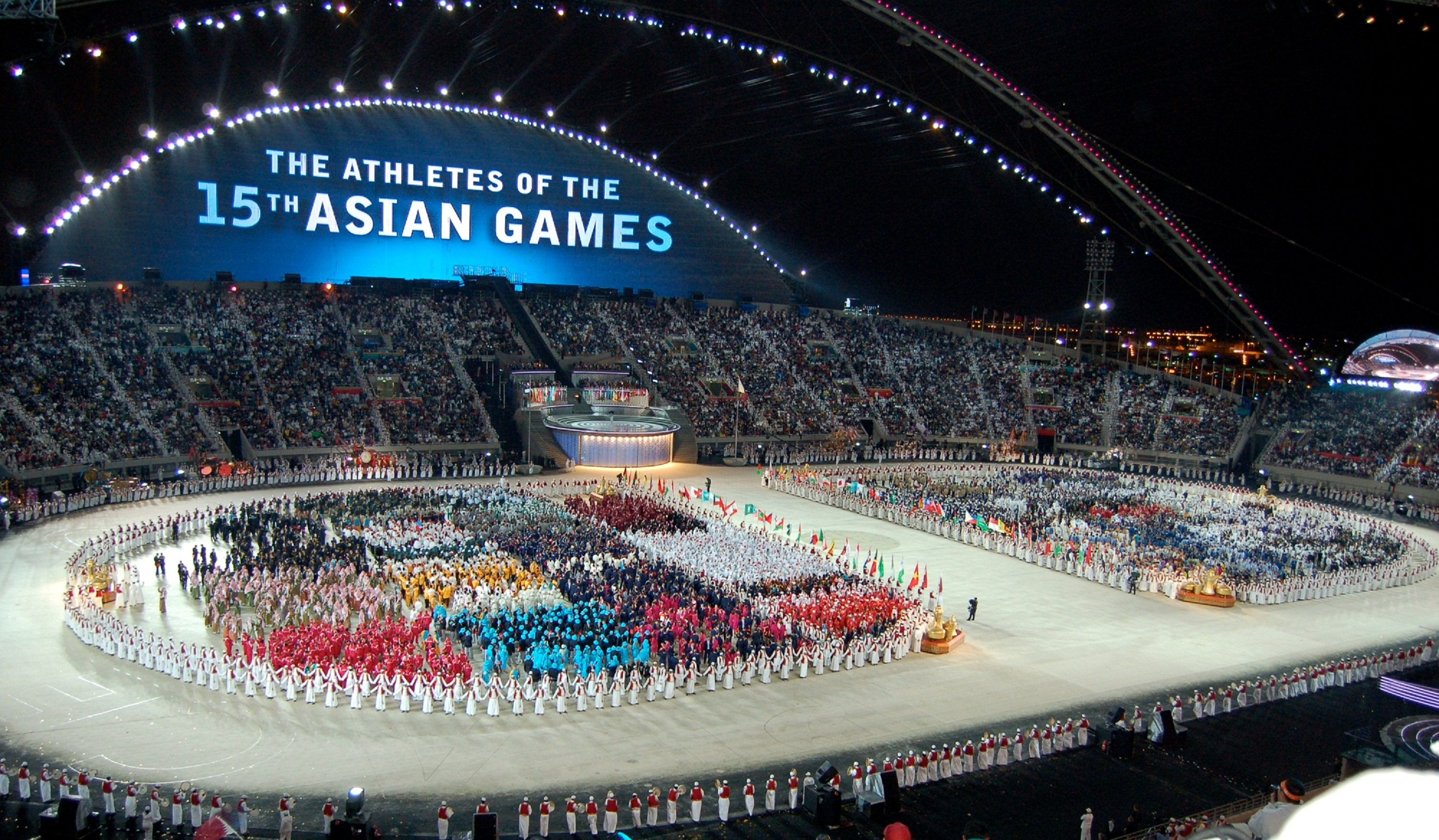 Athletes of the 2006 Asian Games gathered at the center of a main stadium during the opening ceremony.